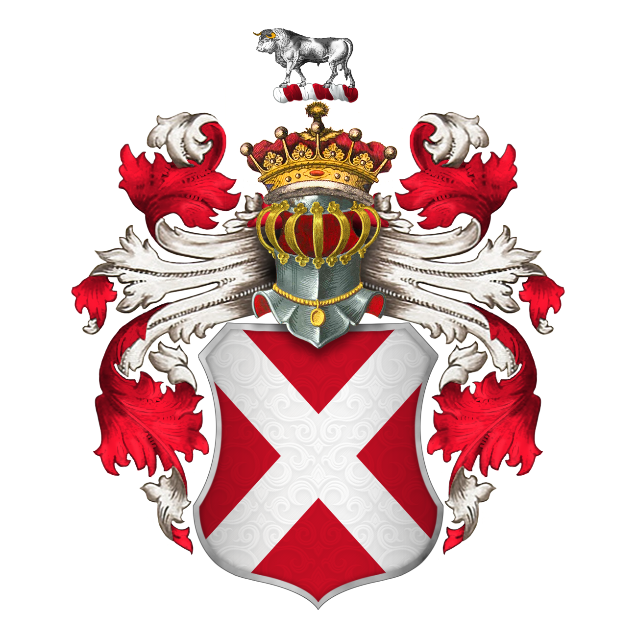 Coat of arms of Neville, Earls of Westmorland